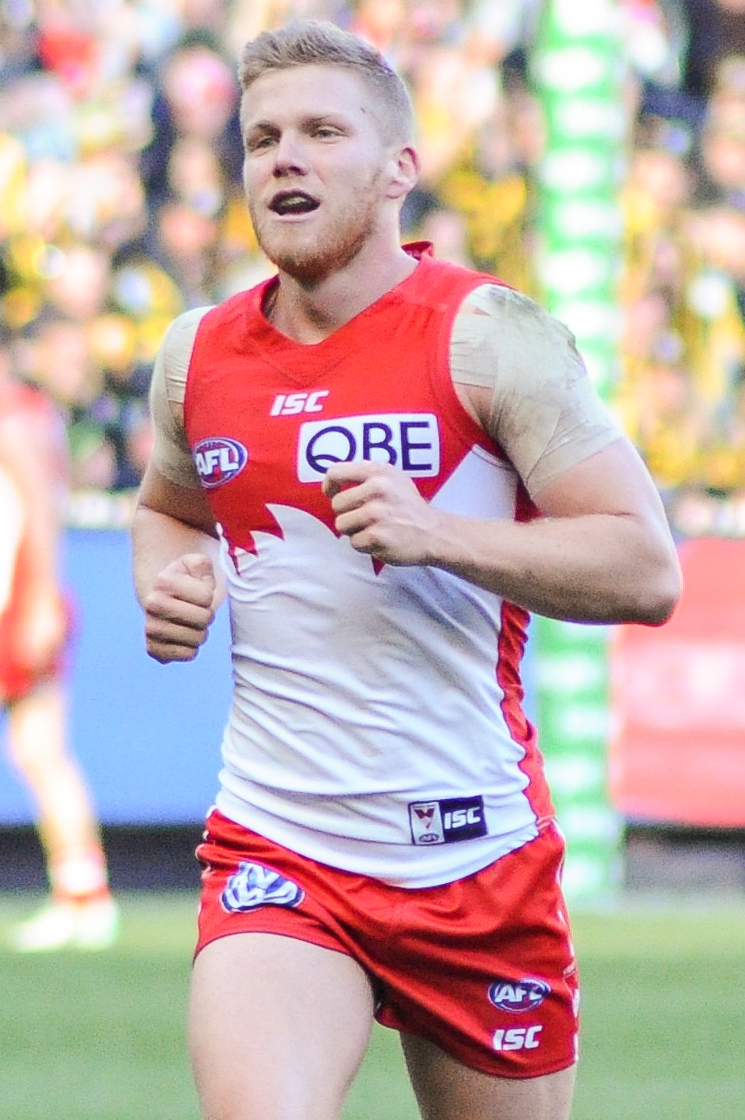 Dan Hannebery during the AFL round thirteen match between Richmond and Sydney on 17 June 2017 at the Melbourne Cricket Ground in Melbourne, Victoria.